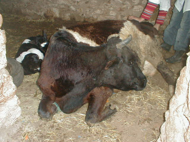 Milk fever, typical "self-auscultation" (head stance as if the cow was hearing its heart) Walon: Touma del velêye (five di laecea) : pôzicion tipike del tiesse sol coistrece.